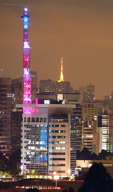 Skyline of São Paulo, Brazil